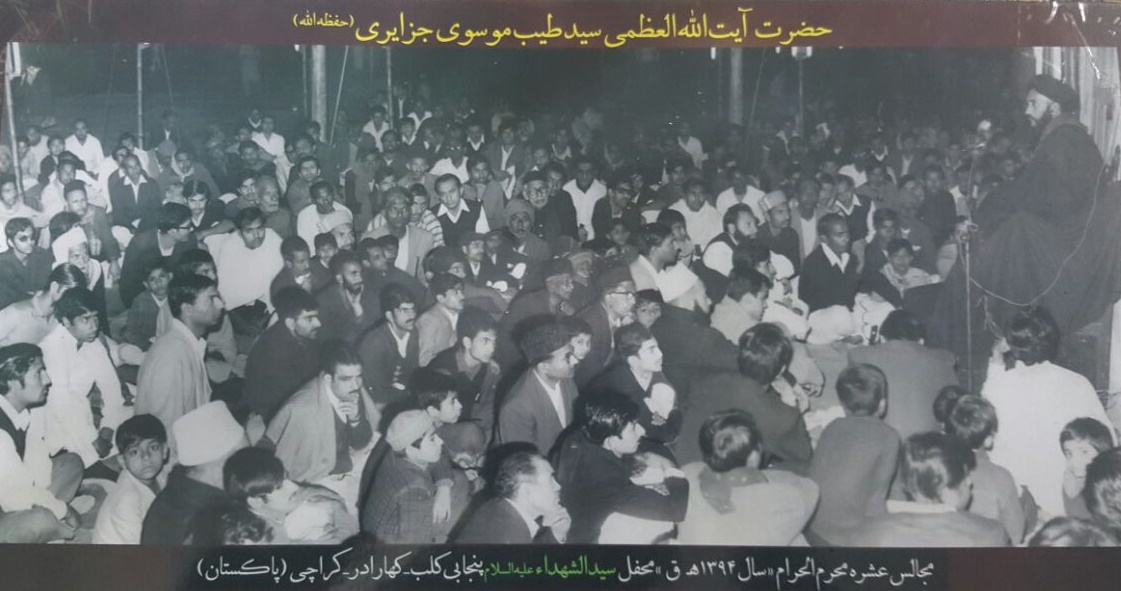 سید طیب جزایری- پاکستان